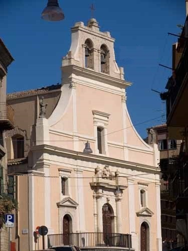 Chiesa di San Giuseppe (città di San Cataldo, provincia Caltanissetta) (1).jpg